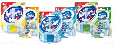 Domestos_toilet_blocks